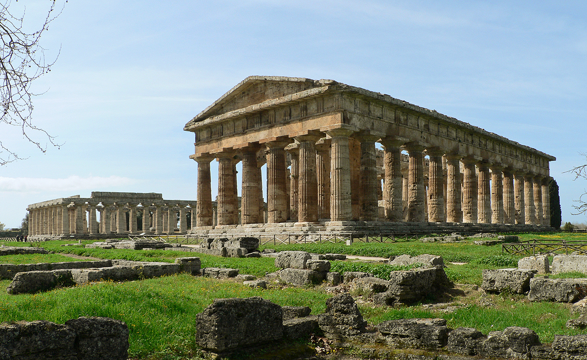 View of Paestum.